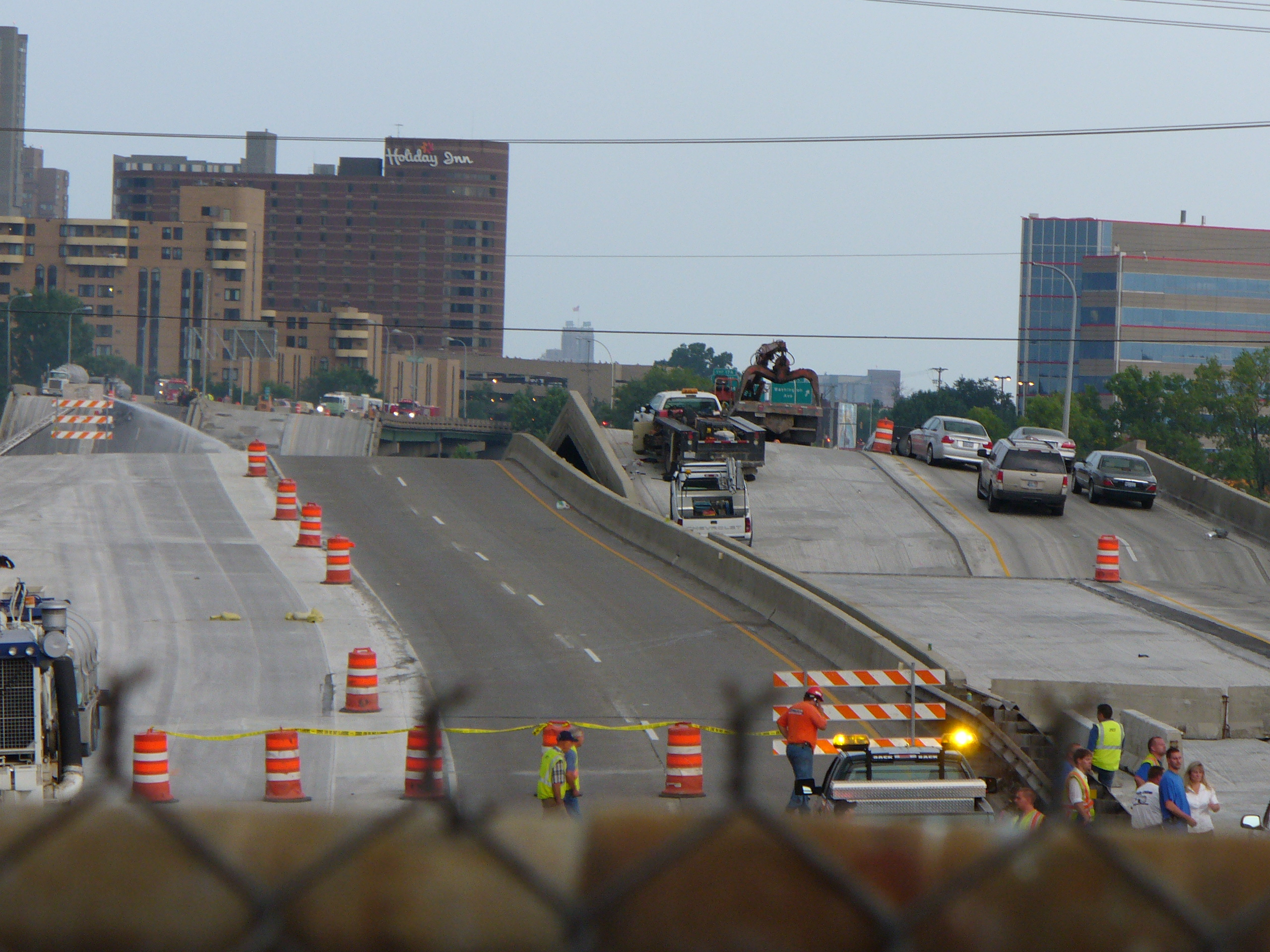 View across top of collapsed I-35W bridge in Minneapolis, looking south from University Avenue.